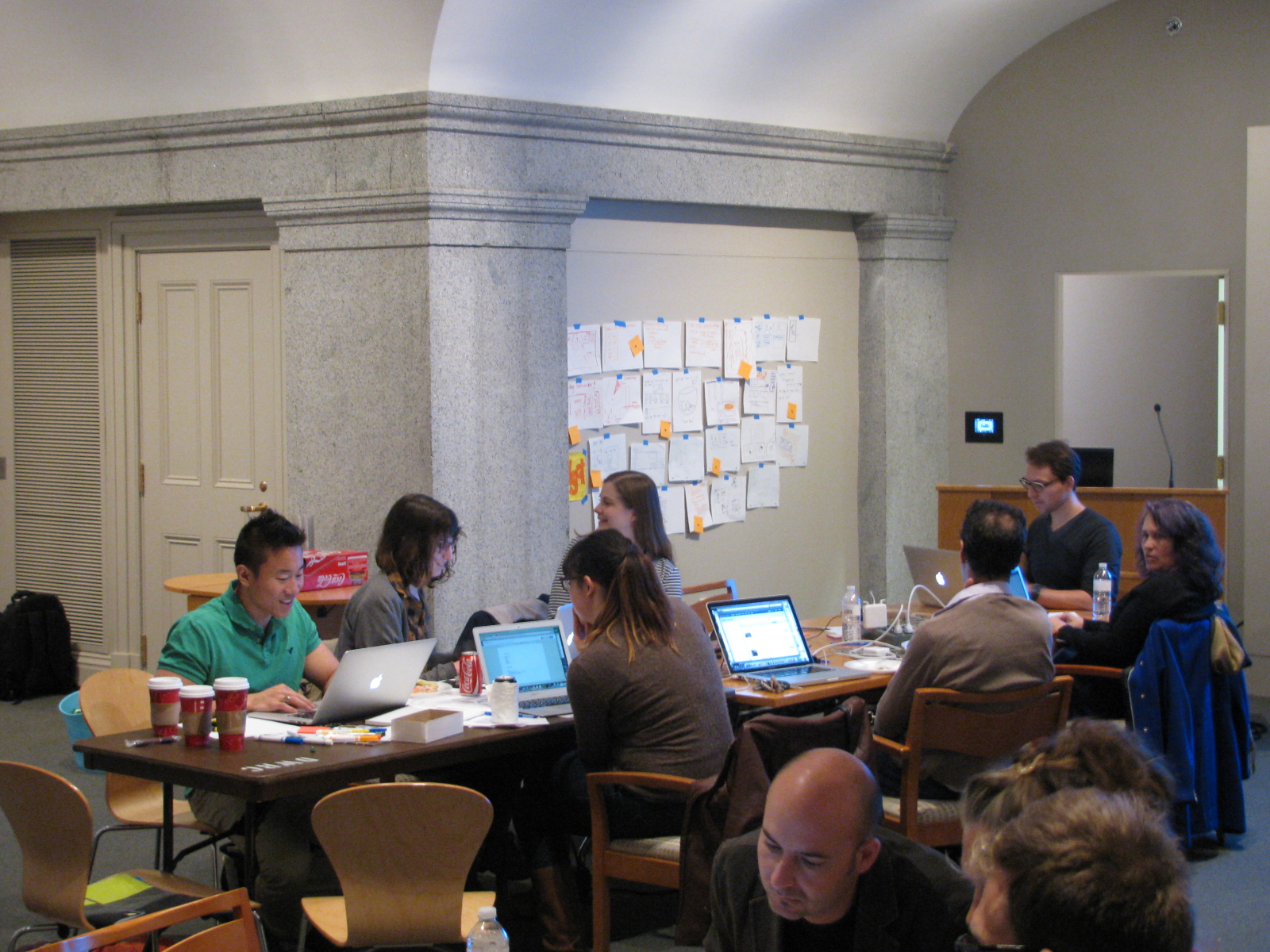 Smithsonian hackathon Reynolds conference center